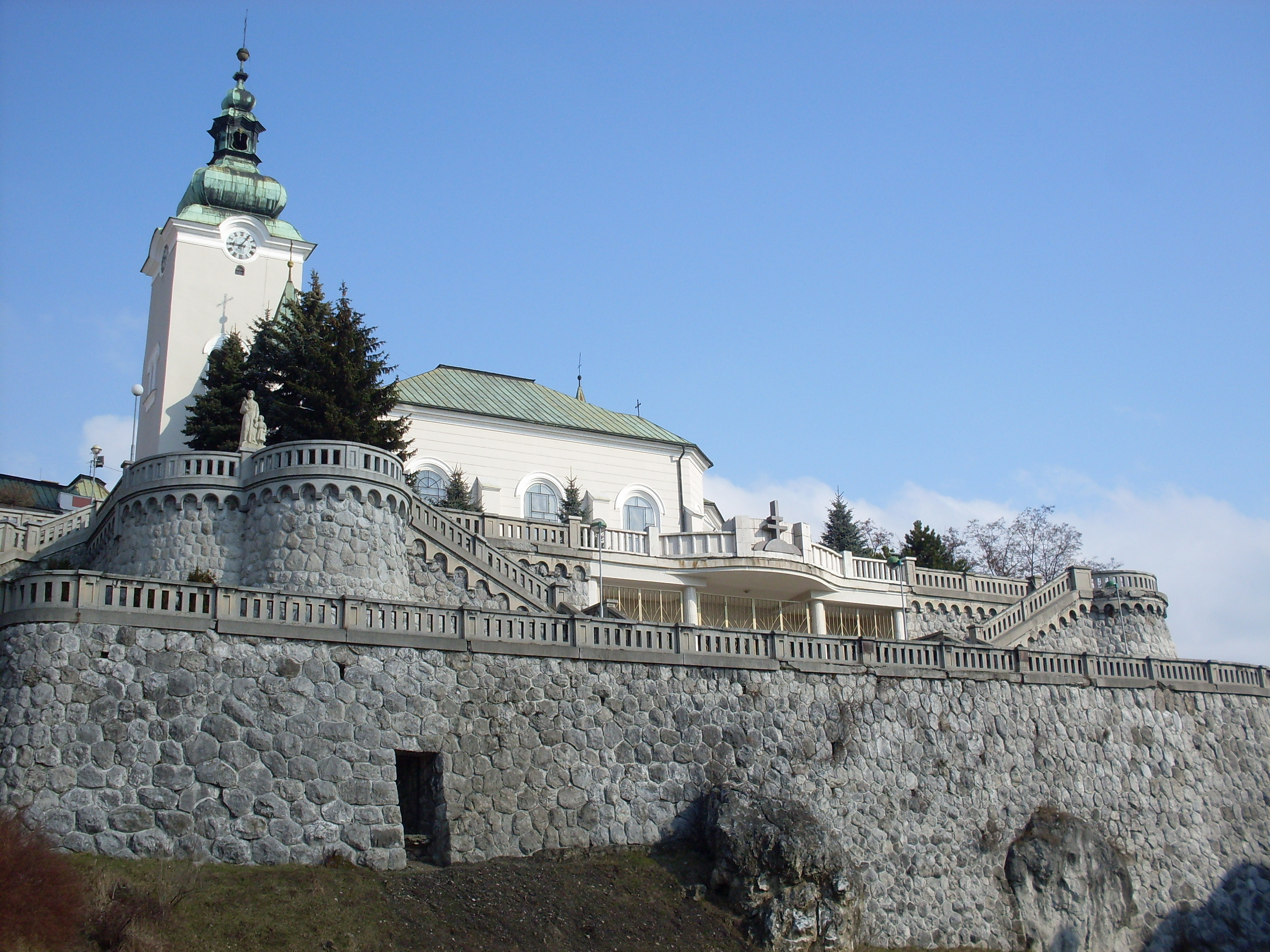 The church of St. Ondrej in Ružomberok, Slovakia